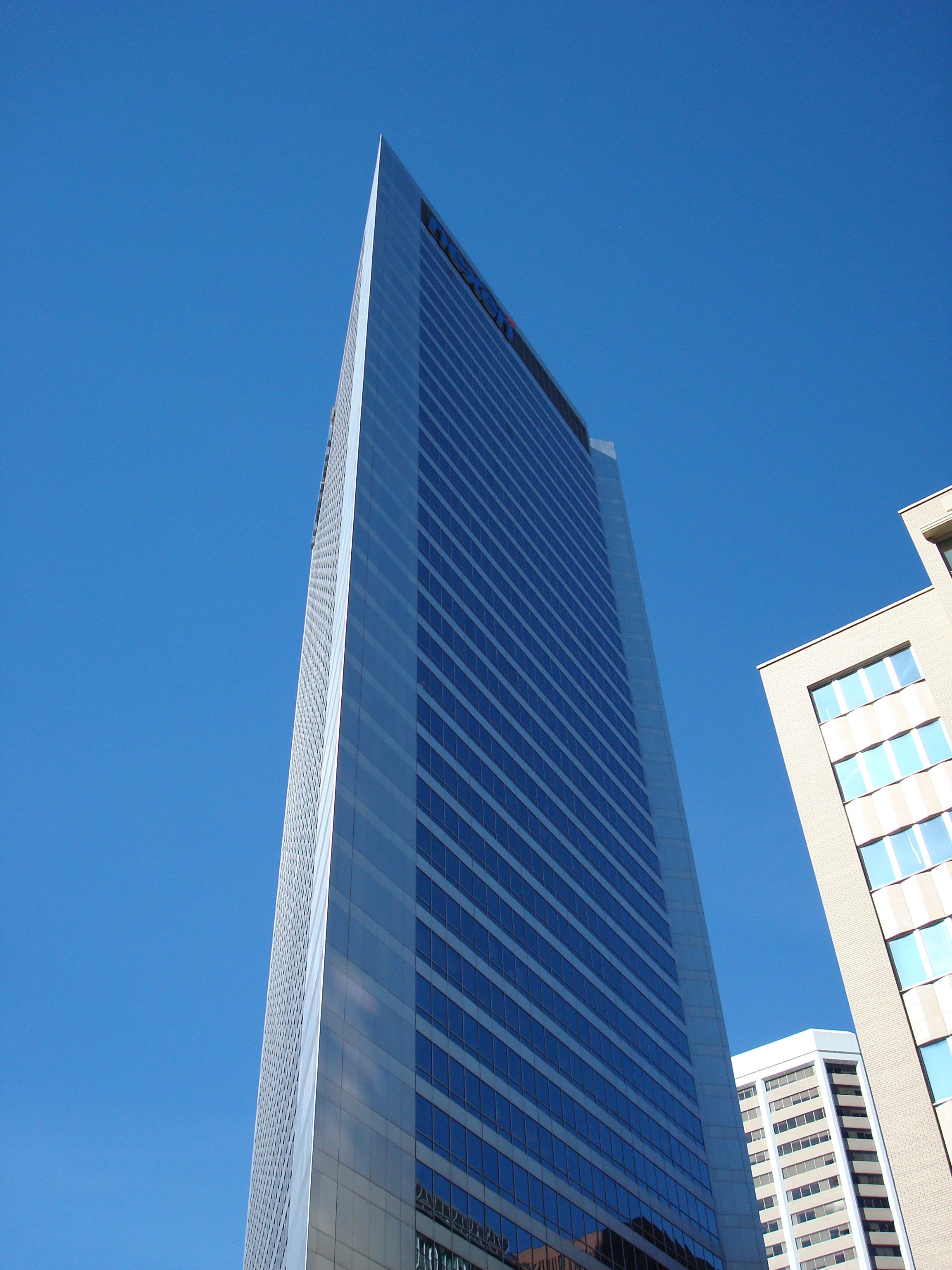 Depicted place: Nexen Building, Calgary